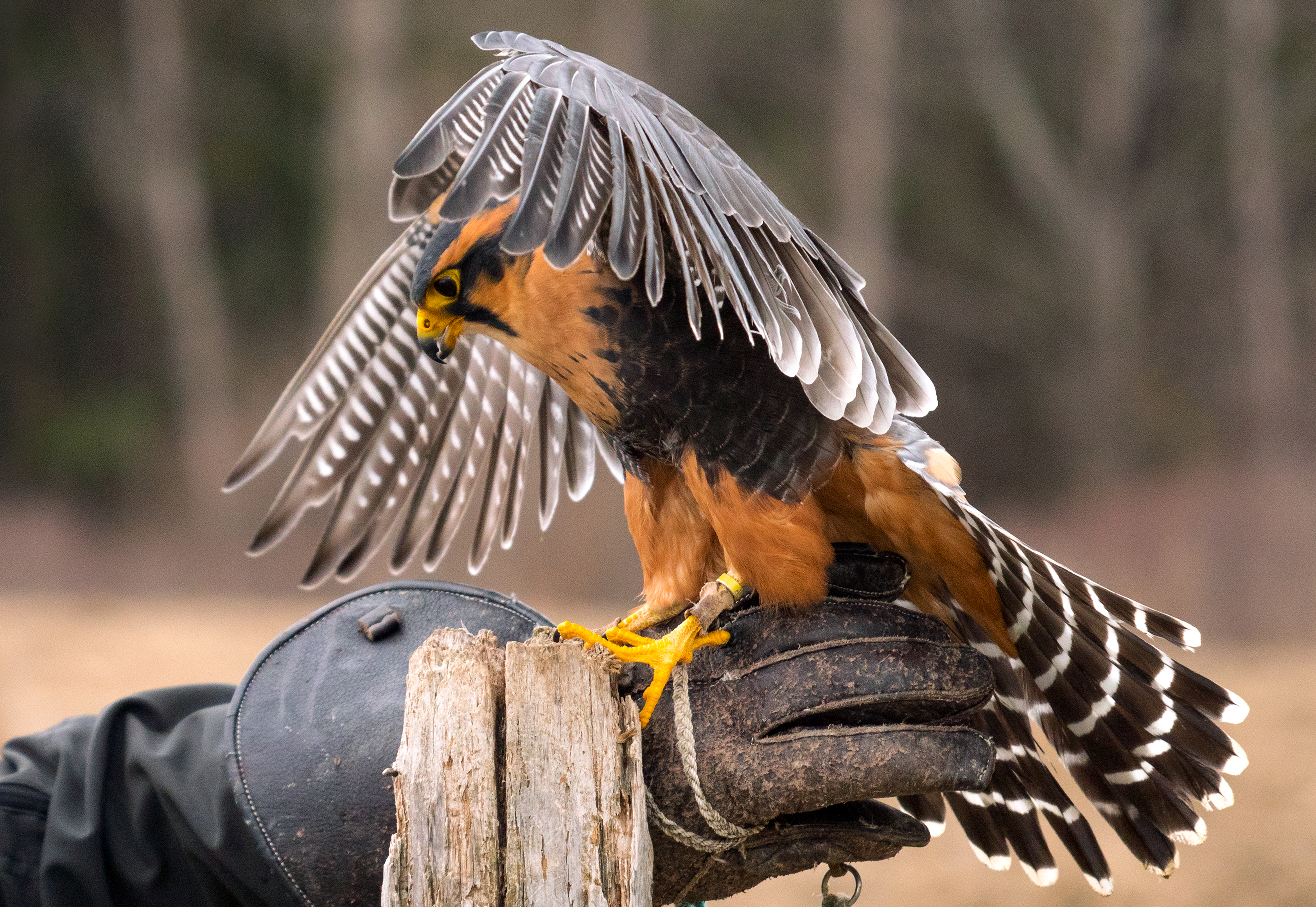 Aplomado Falcon in training for falconry